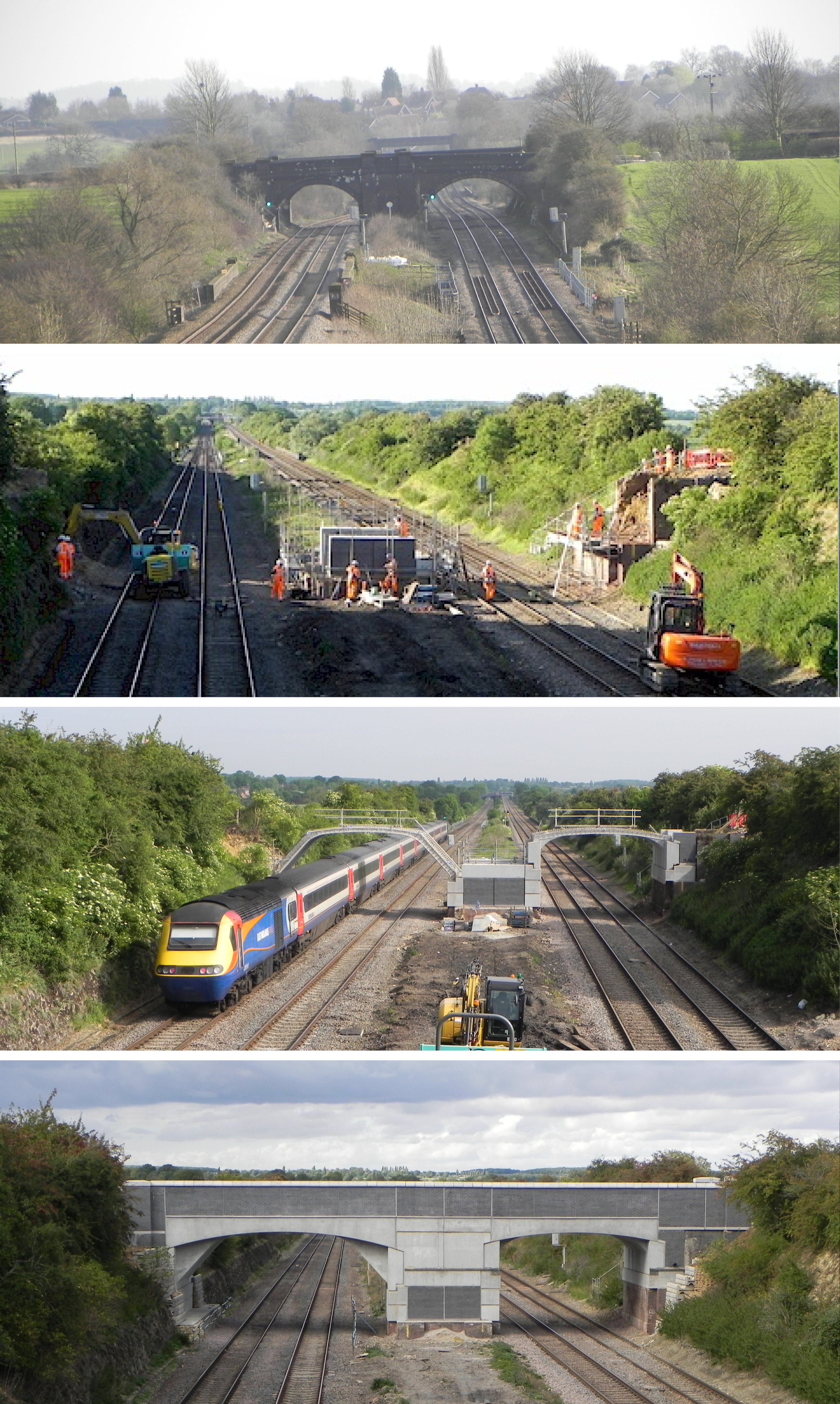 Road bridges over the Midland Main Line in Bedfordshire were replaced in 2014 to allow overhead electrification and the passage of larger rolling stock. Here is the bridge carrying New Road at Object location52° 11′ 56″ N, 0° 31′ 30″ W is shown before (March 2014), during, and after (August 2014) the upgrade.